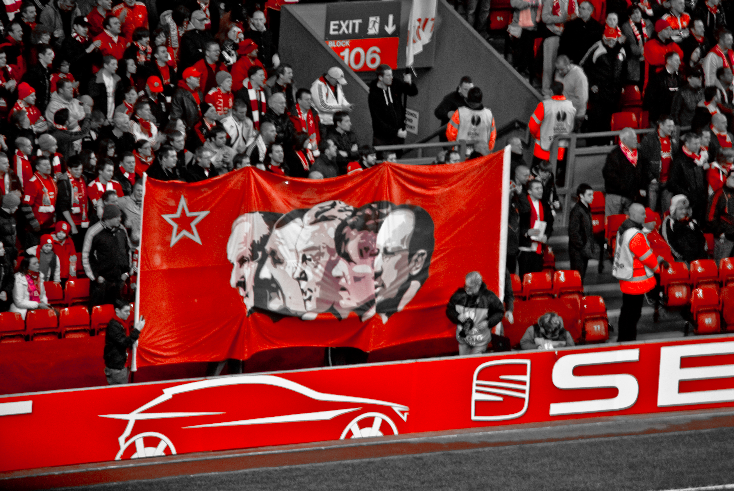 Banner of Liverpool's supporters with Bill Shankly, Bob Paisley, Joe Fagan, Kenny Dalglish and Rafael Benítez during Europa League match against SC Braga.